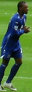 Manuel Fernandes. Image cropped from original at flickr.